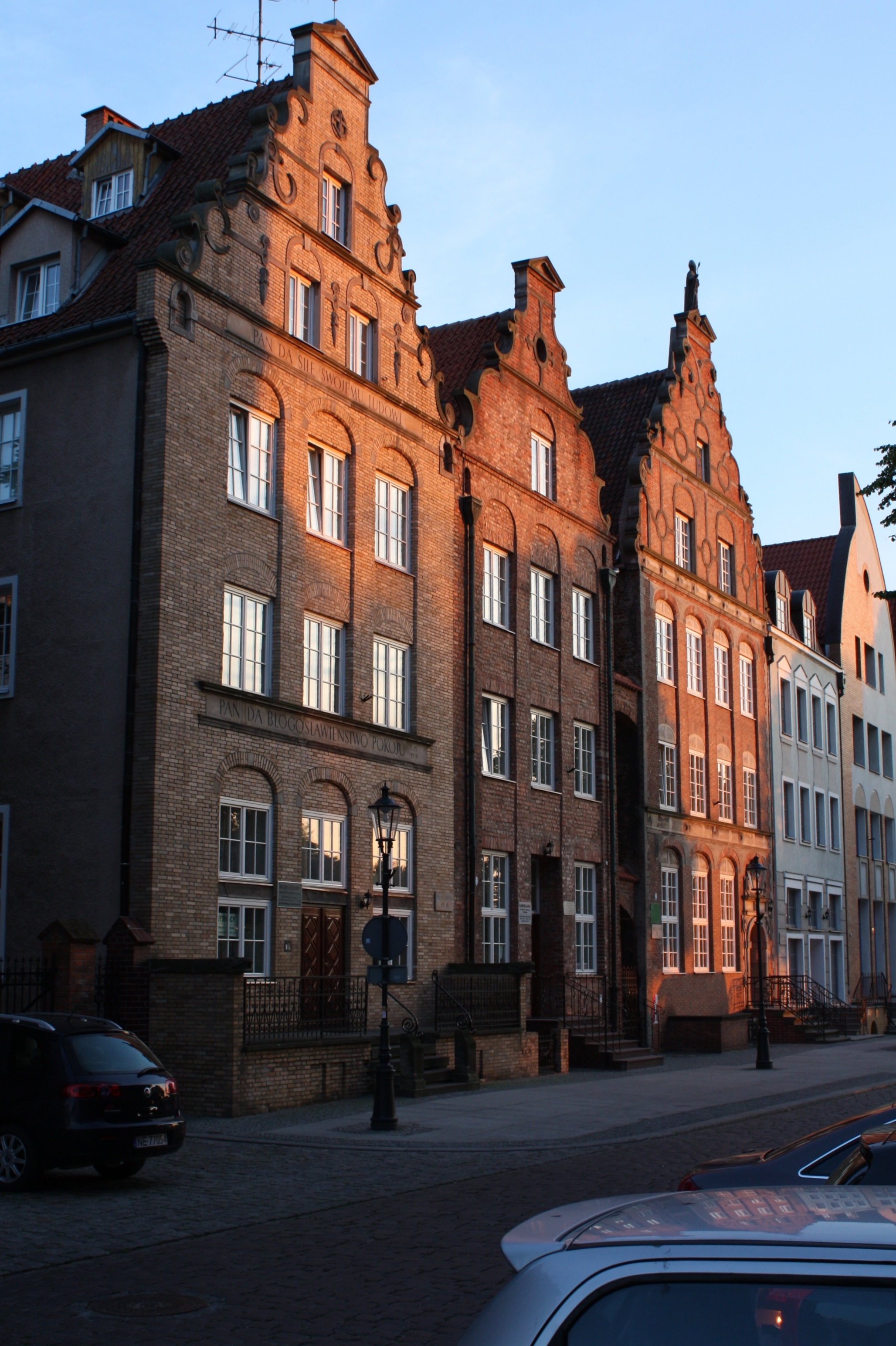 Elbląg, Mostowa street with baroque houses